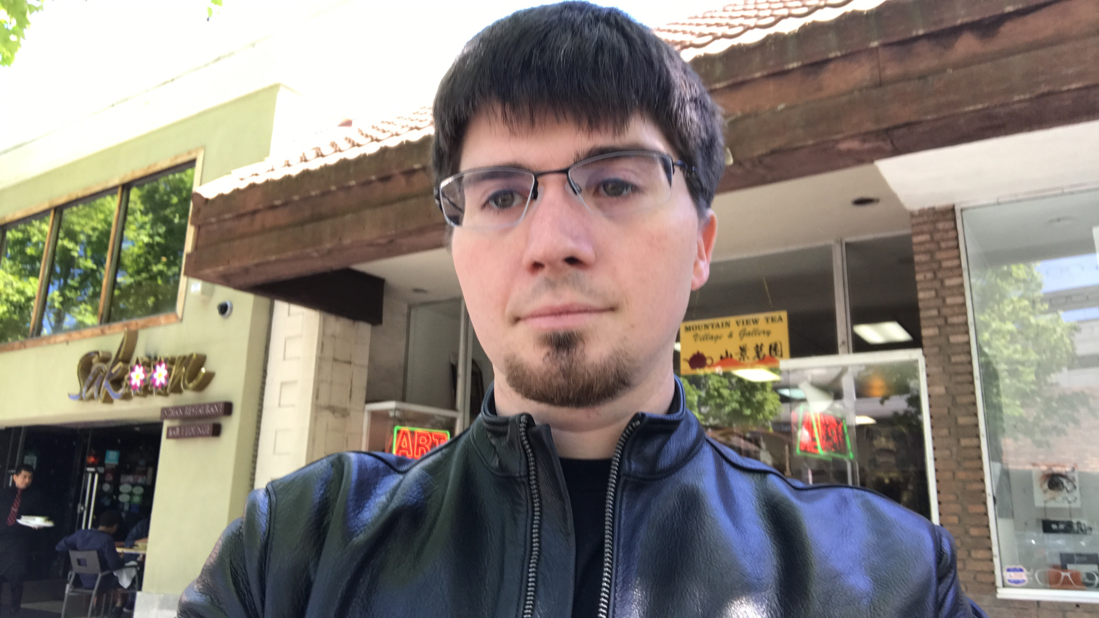 A photo of American computer scientist Ian Goodfellow in Mountain View, California.